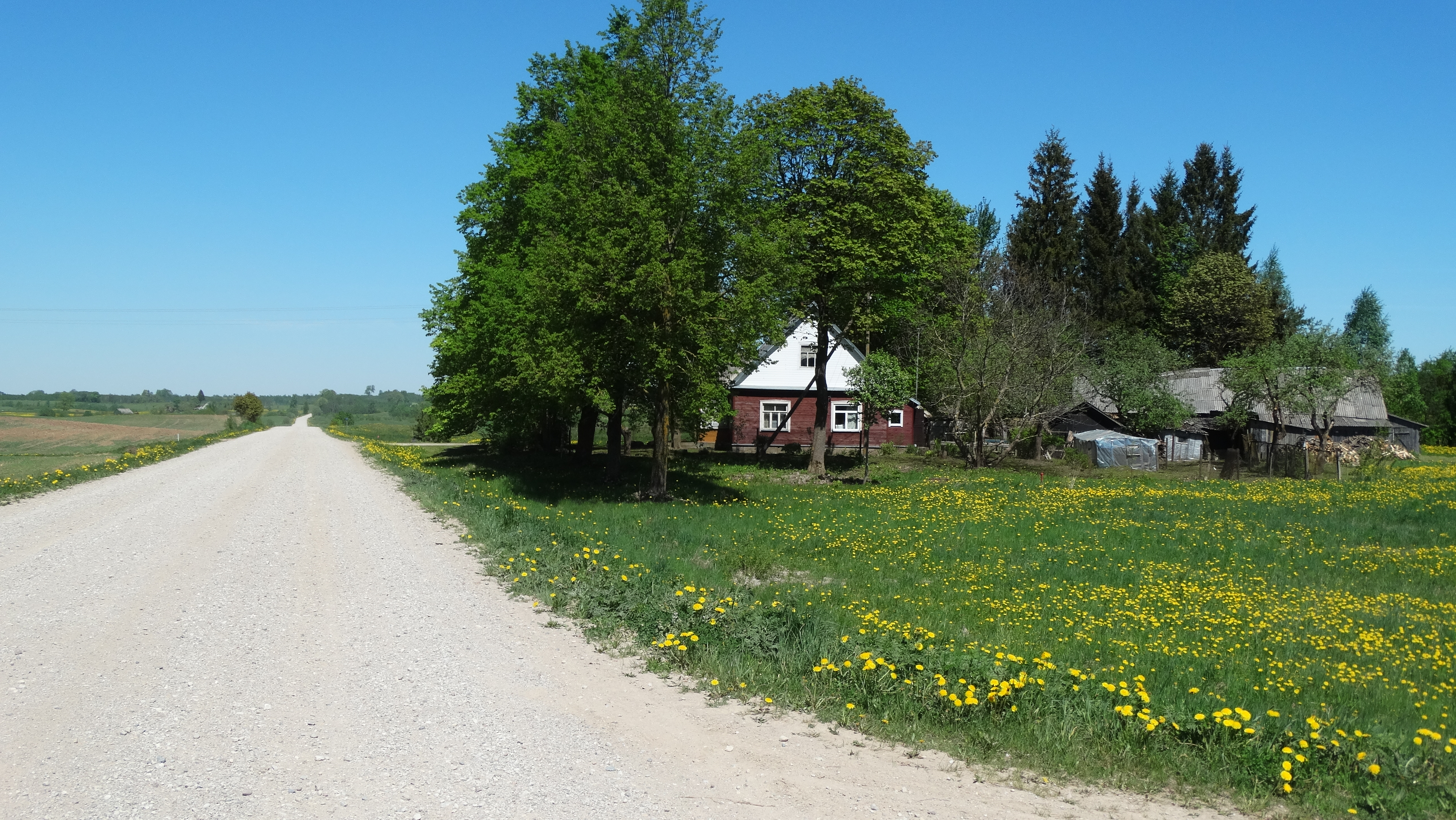 Šileikėnai, Molėtai District, Lithuania